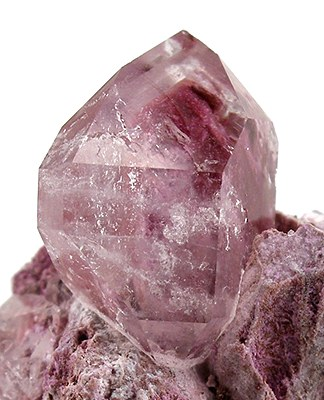 Hennomartinite, Quartz, Sugilite Locality: Wessels Mine (Wessel's Mine), Hotazel, Kalahari manganese fields, Northern Cape Province, South Africa (Locality at ) Size: miniature, 3.5 x 2.4 x 1.7 cm Hennomartinite and Sugilite in Quartz Beautiful specimen hosting a 1.5 cm gem quartz through which you see the sugilite matrix, studded also with minute crystals of (brown) Hennomartinite . RARE MATERIAL found only once at this mine!